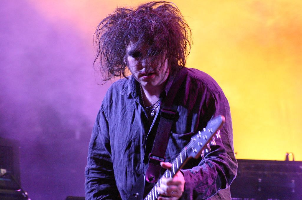 Robert Smith from the Cure. From the German Wikipedia.